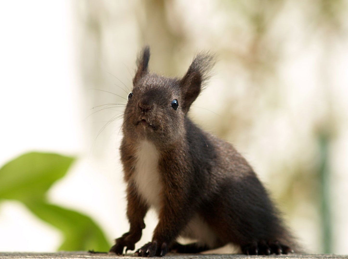 A squirrel sitting on a step in front of my house in Bavaria, Germany.